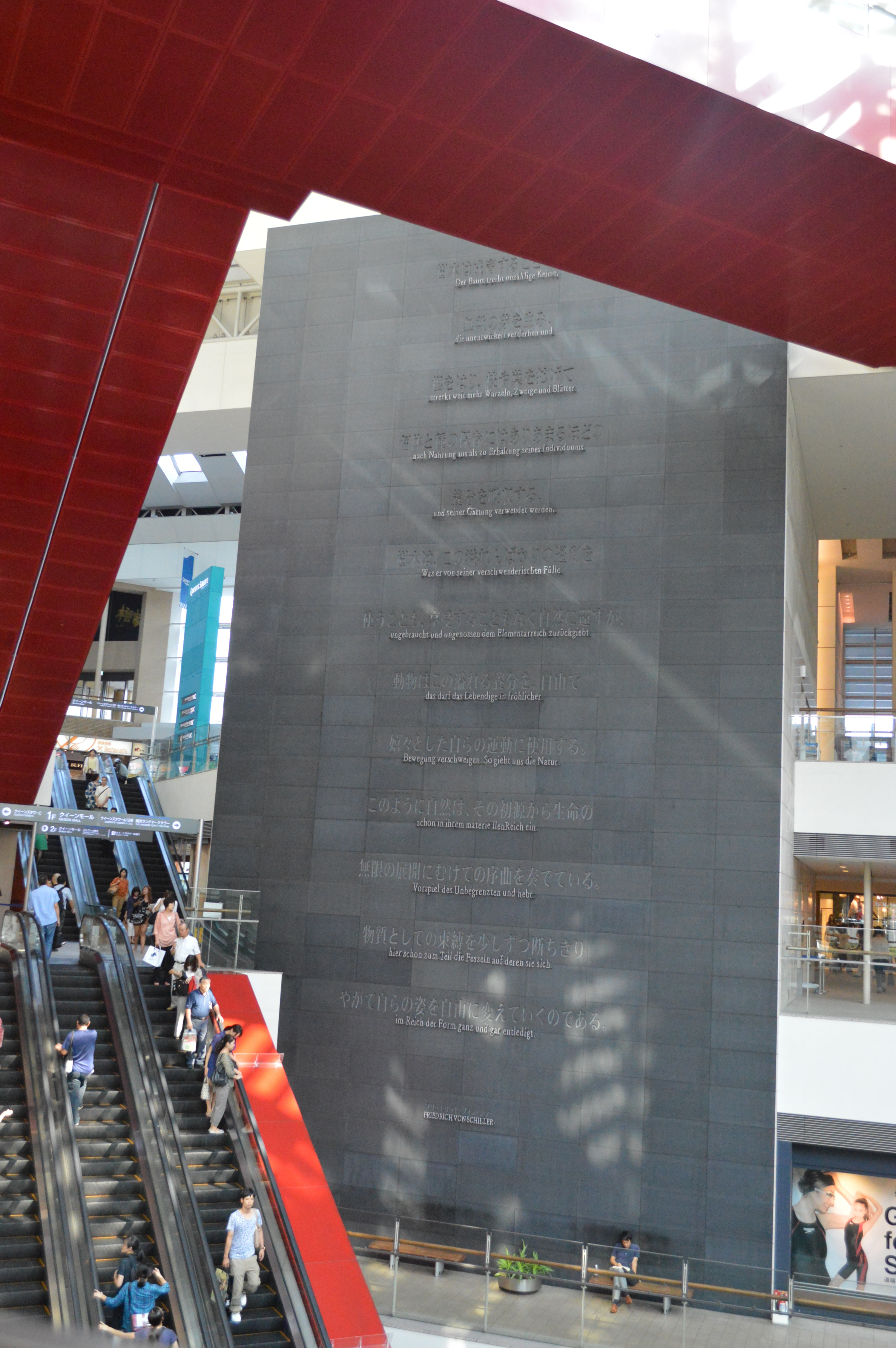 Multi-floor escalators at Queen's Square Yokohama, directly connecting the 1st floor and B3F, where the Minato-Mirai subway station is located. See Floor Map.